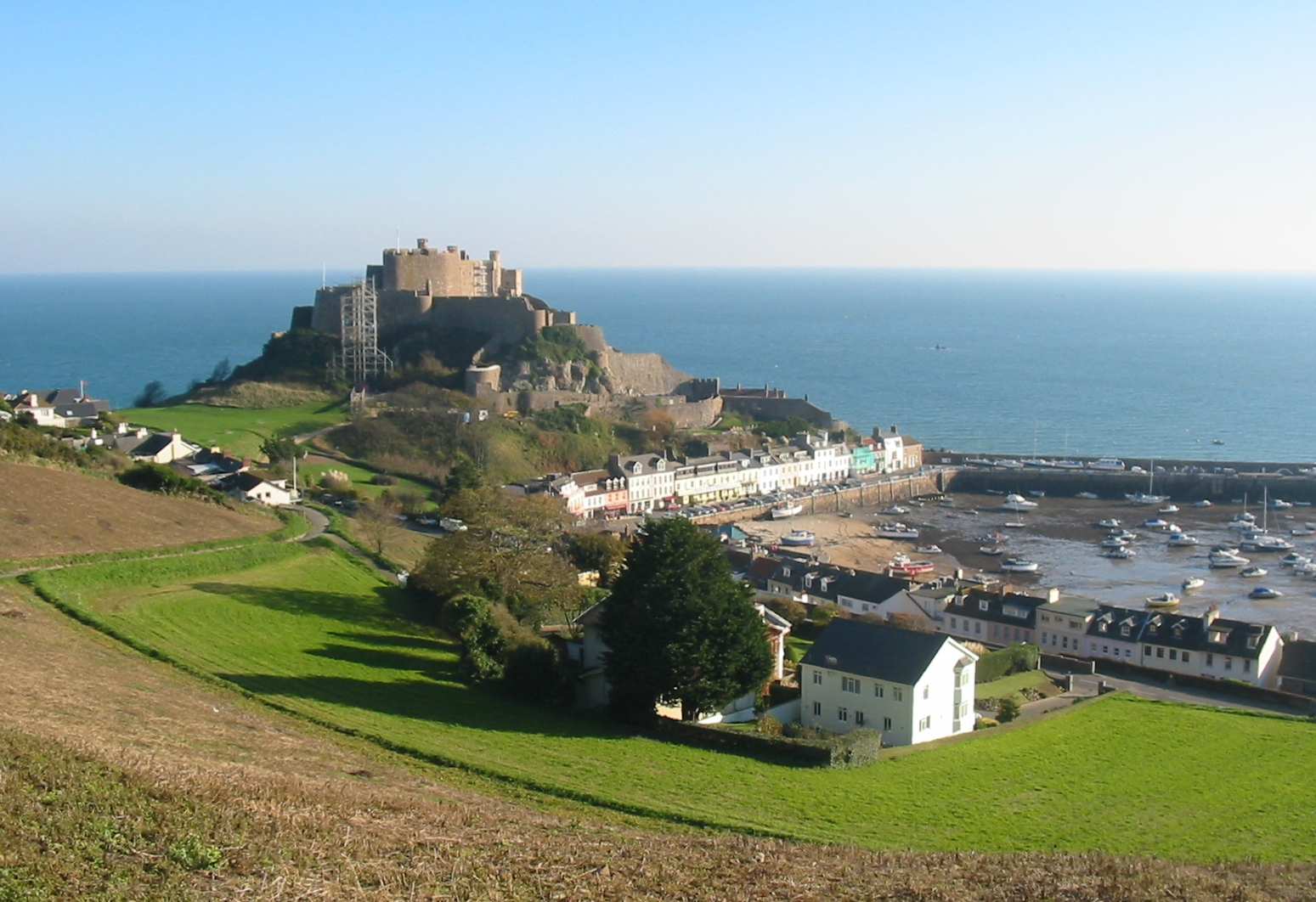 castle of Mont Orgueil overlooking the harbour of Gorey in the parish of St. Martin, Jersey. Taken during the restauration of the castle. Jèrriais: l'Vièr Châté auve eune veue sus la caûchie d'Gouôrray prînse du côti - dans la pâraisse d'St. Martîn, Jèrri